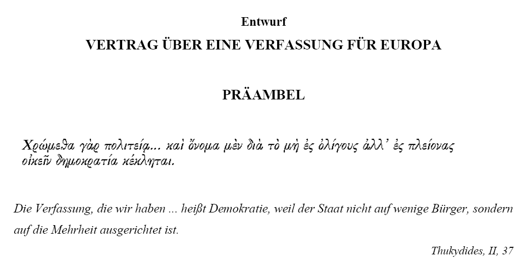 Constitution for Europe